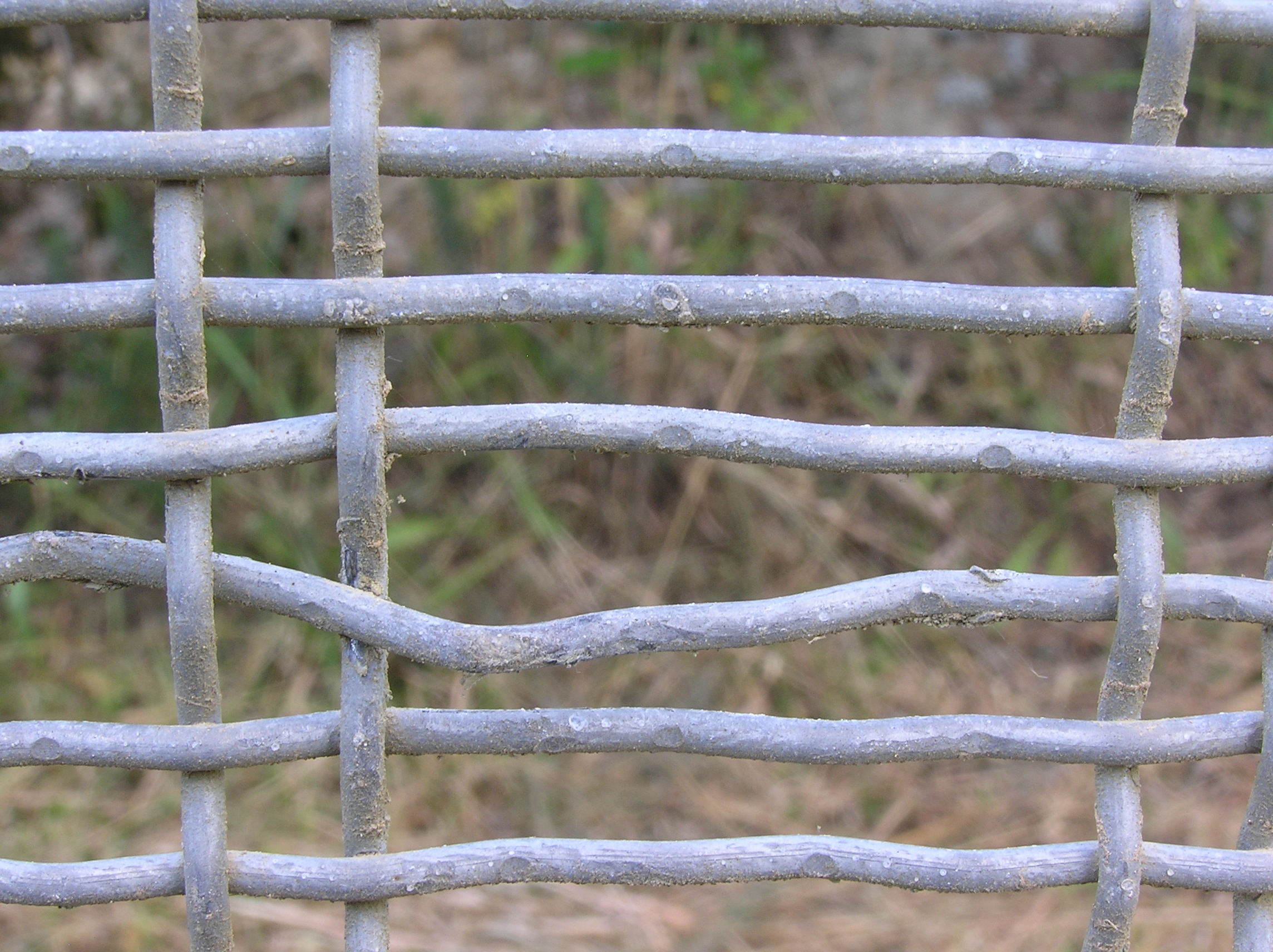 Example of Karori Wildlife Sanctuary fence minor imperfections. Wellington, New Zealand